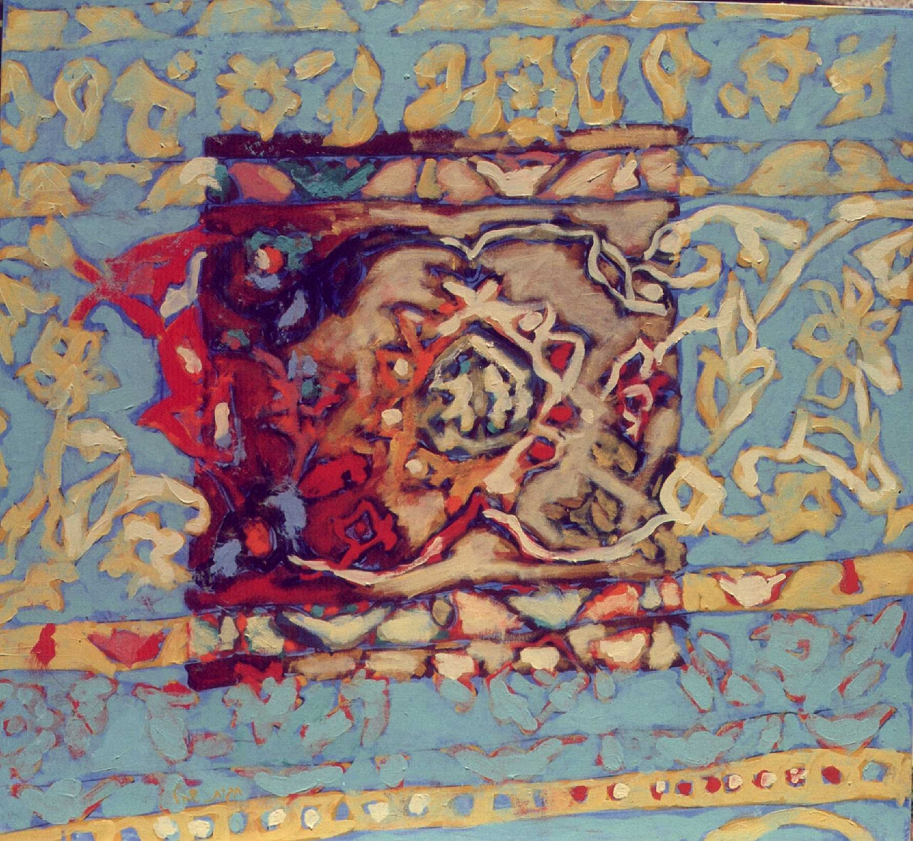 Good Blue by Hagit Shahal